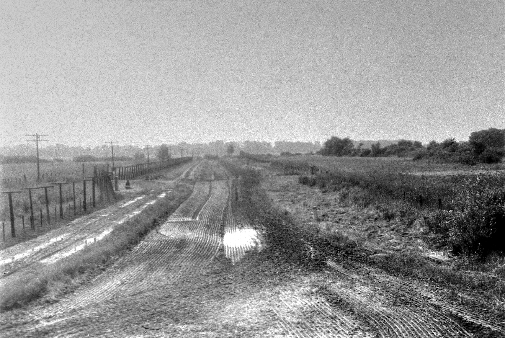 State border between Čierna nad Tisou (Czechoslovakia) and Chop (USSR) in 1985.